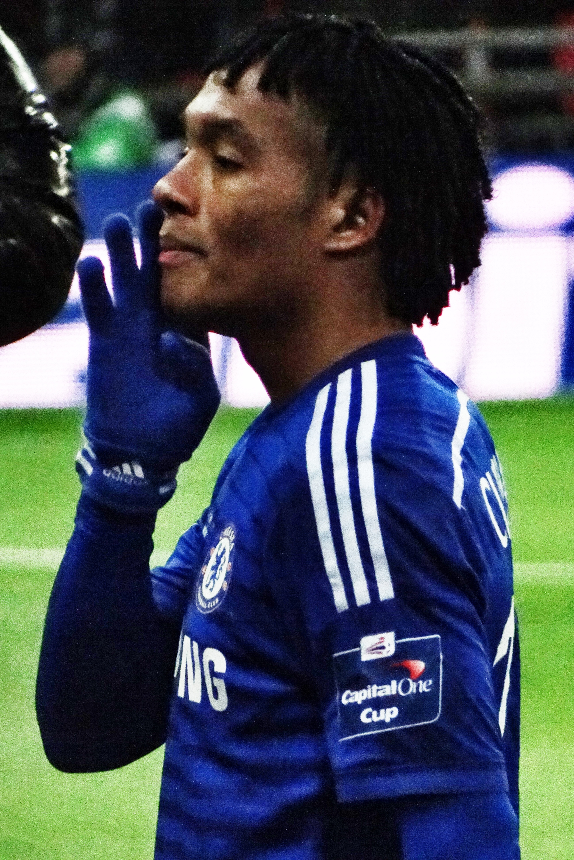 Chelsea 2 Spurs 0 Capital One Cup winners 2015